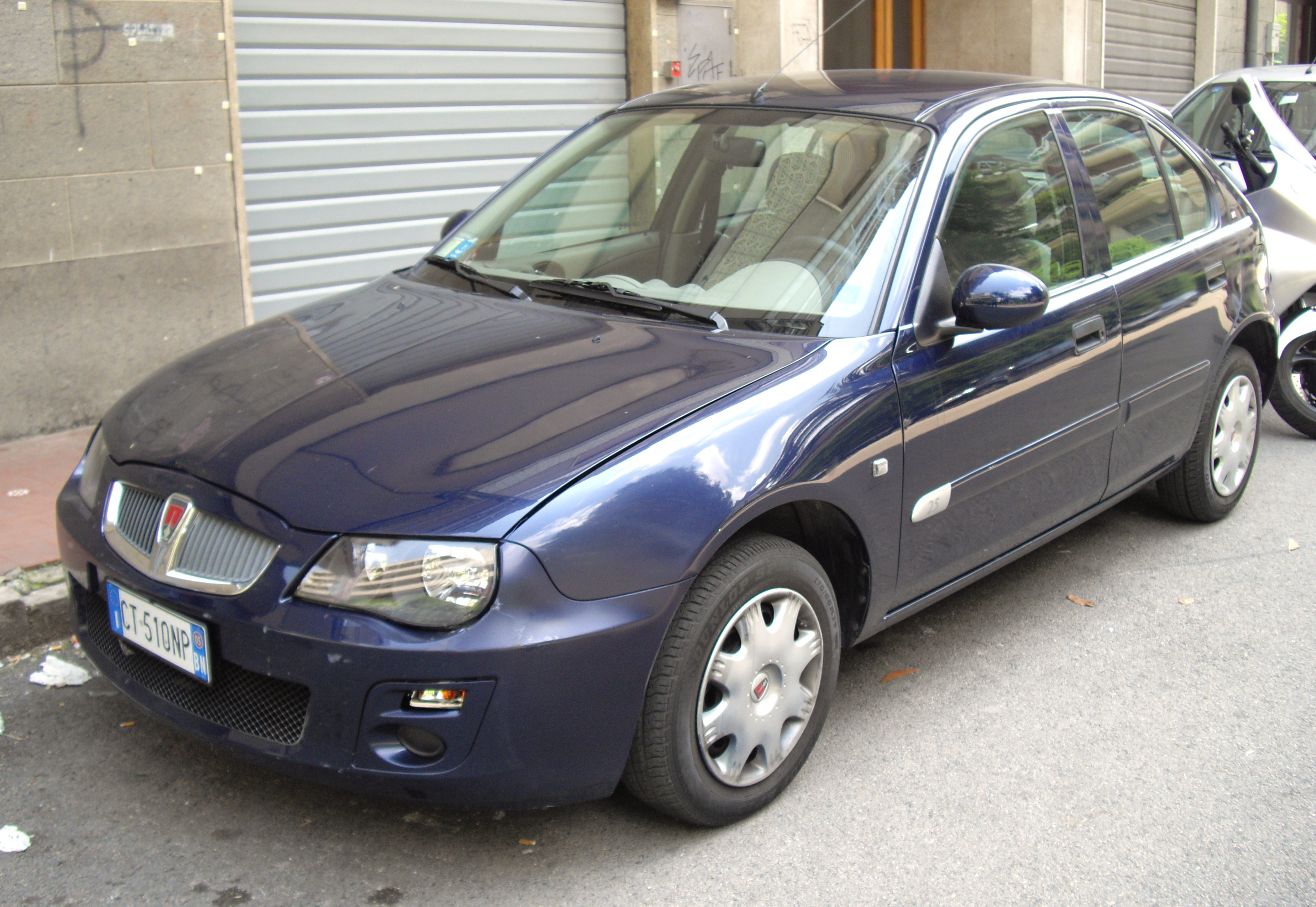 Rover 25 facelift